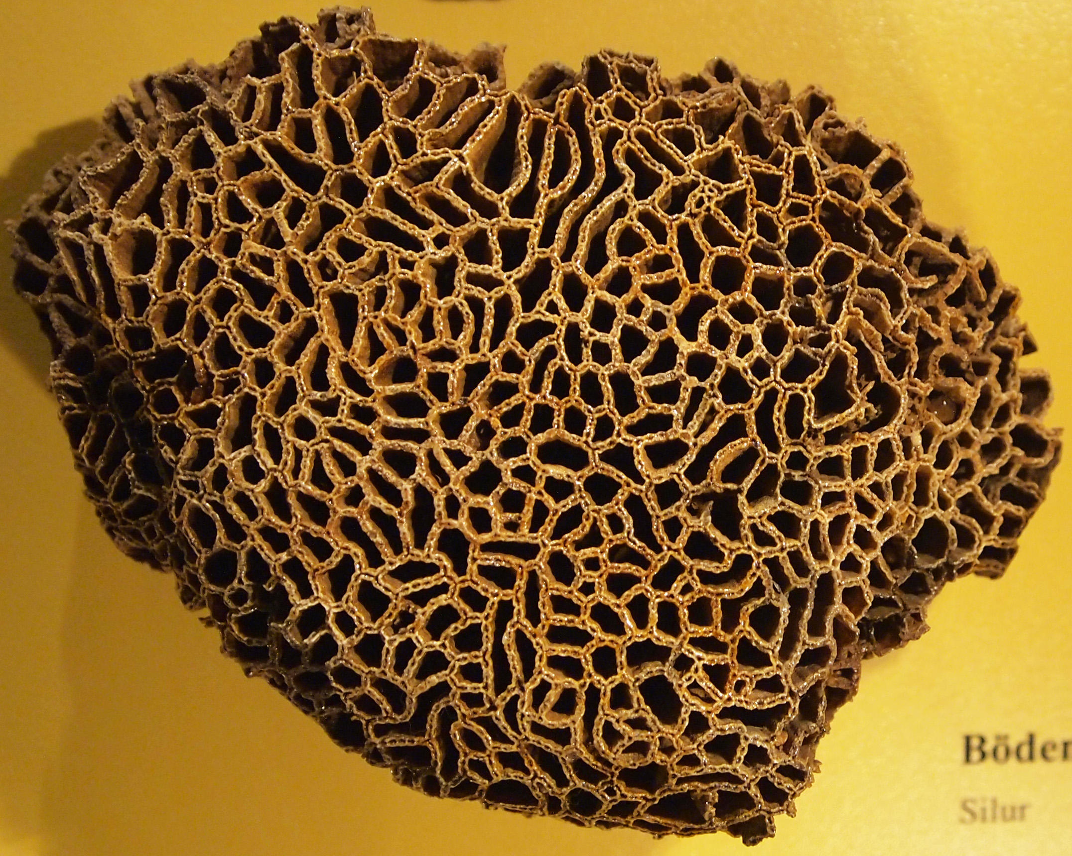 Catenipora in Museum Mensch und Natur. This photograph was taken with an Olympus E-PL1